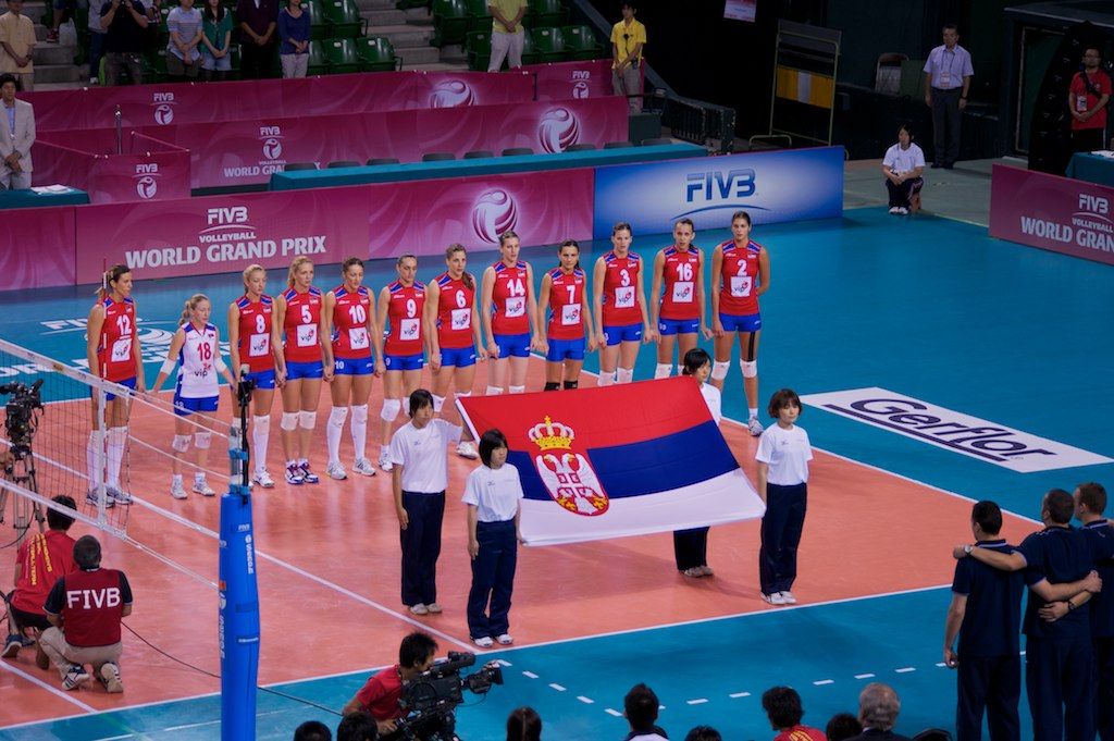 Team Serbia - 2011 FIVB Women's Volleyball World Grand Prix